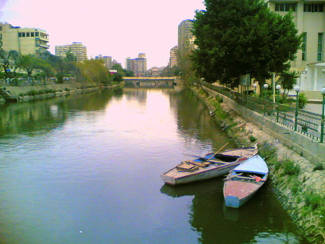 الزقازيق - بحر مويس